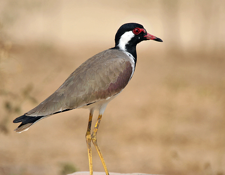 Red-wattled Lapwing Vanellus indicus at/ near Hodal in Faridabad District of Haryana, India.